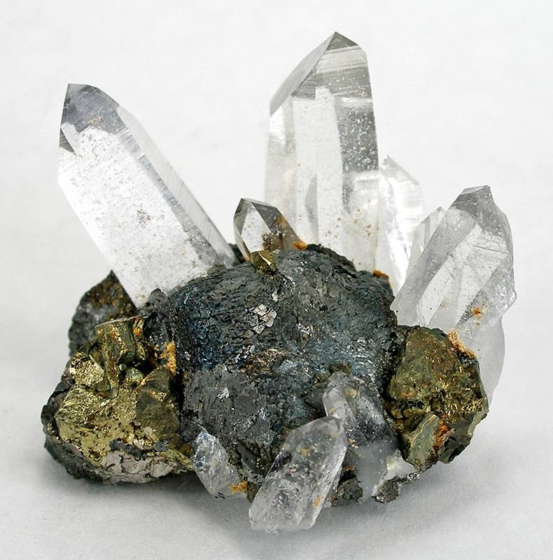 Stannite, Chalcopyrite, Quartz Locality: Yaogangxian Mine, Yizhang County, Chenzhou Prefecture, Hunan Province, China (Locality at ) Size: 5.2 x 5.0 x 4.7 cm. A brilliantly lustrous ball of stepped stannite crystals, flanked by splaying GEM quartzes at its upper edge, makes this a really outstanding stannite specimen. Usually they are kind alumpy and although great for the species, not much to look at overall. THIS ONE is very aesthetic, though; as well as significant for the rare mineral displayed. The flanking quartzes and golden chalcopyrite to either side simply makes this piece more unique and special than the crowd. Ex. Dr. Steve Smale Collection.